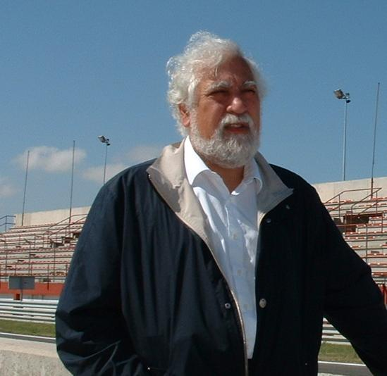 Argentinian F1 designer Enrique Scalabroni at the Albacete Circuit, Spain, 2006.